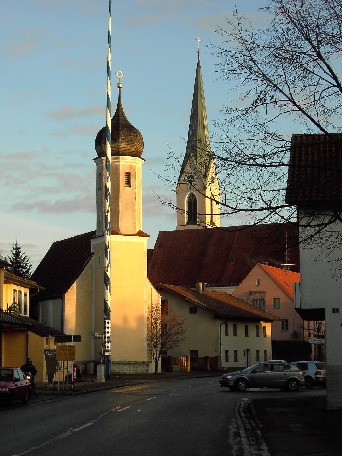 Hohenlinden Main Street view in an eastward direction. The church Mariä Heimsuchung in the foreground, St. Josef in the background